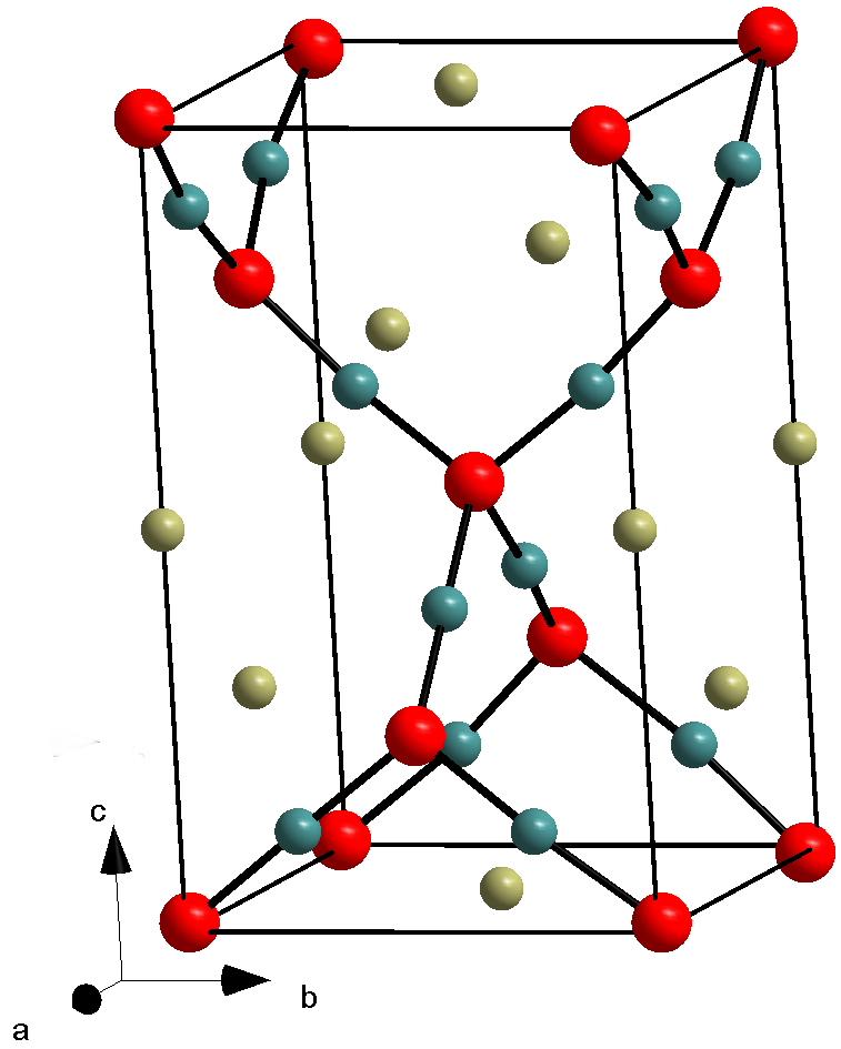 Crystal structure of Manganese(II,III) oxide